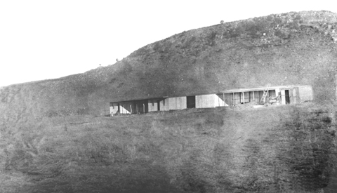 Tolstoy farm created by Gandhi and surroundings.